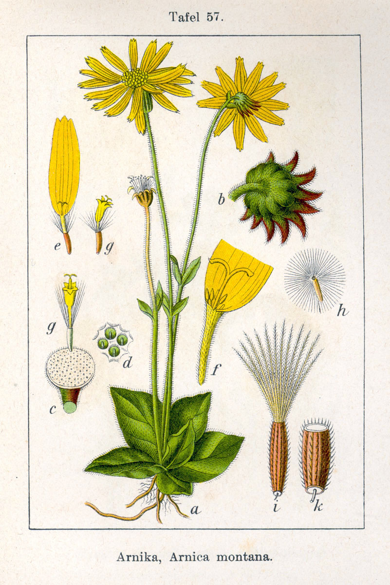 Arnica montana L. Original Description Arnika, Arnica montana